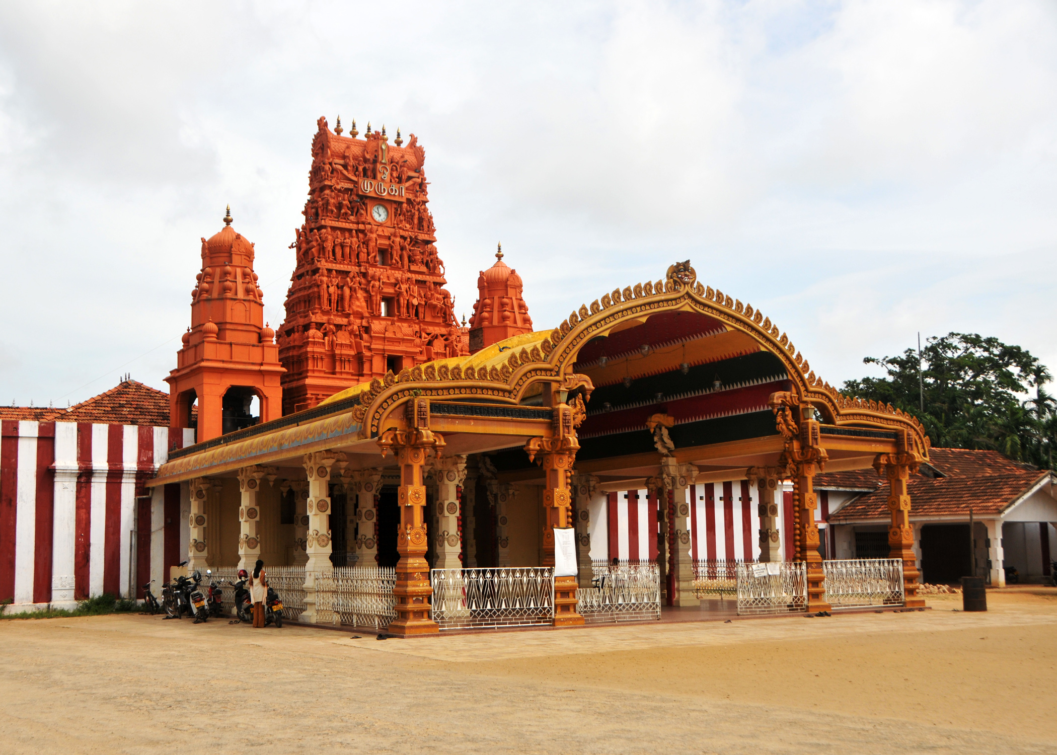 One of the most significant Hindu temples in Jaffna, Sri Lanka. It stands in the town of Nallur. The presiding Deity is Lord Muruga in the form of the holy Vel.